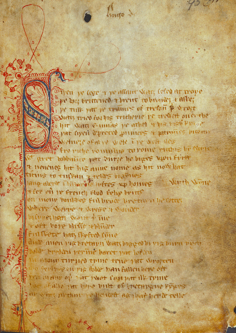 "Sir Gawain and the Green Knight", from the Cotton Nero A.x manuscript